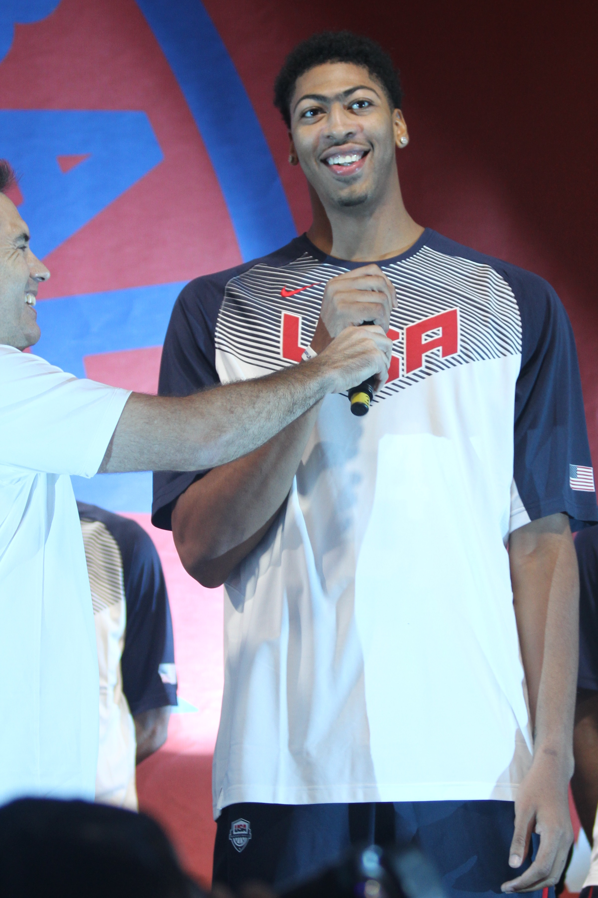 Anthony Davis at 2014 World Basketball Festival at 63rd Street Beach in Chicago